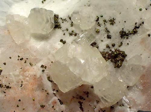 Strontianite, Baryte Locality: Dreislar Mine, Dreislar, Winterberg, Sauerland, North Rhine-Westphalia, Germany (Locality at ) Size: 7.2 x 4.7 x 2.9 cm. A showy and excellent German specimen from a famous locality - the Dreislar Mine, Sauerland. A sharp, knife-edge bladed, complete all-around and pristine, parallel-growth baryte crystal cluster with lovely pink highlights has sharp, lustrous and colorless strontianite crystals aesthetically scattered on the front and back. Brassy chalcopyrite crystals nicely accent this fine piece. Ex. Wilhelm Leithauser Collection.